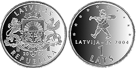 1 Lats Latvia - Spriditis Obverse: The large coat of arms of the Republic of Latvia with the year 2004 inscribed below it is in the center. The inscriptions LATVIJAS and REPUBLIKA, each arranged in a semicircle, are above and beneath the central motif, respectively. Reverse: Sprīdītis, a fairytale character, is featured in the upper part of the coin. 10 stars are arranged in a semicircle around the central motif, and the inscription Latvija – ES 2004 is beneath it. The numeral 1 is situated in the lower part of the coin, and the inscription LATS is arranged in a semicircle beneath it. Edge: Two inscriptions LATVIJAS BANKA (Bank of Latvia), separated by rhombic dots.